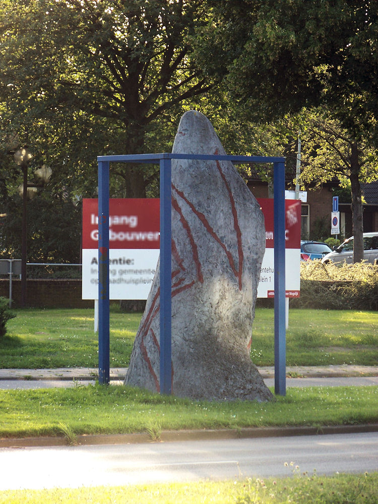 Artwork Blue Emmen Fragment by Alfio Bonanno in Emmen